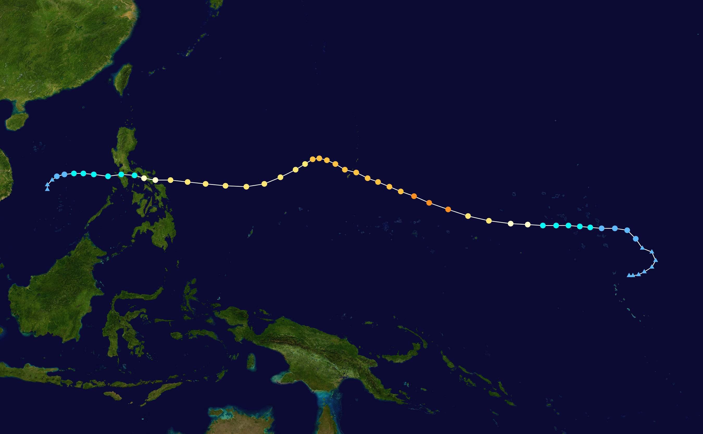 Typhoon Roy 1988 track. Uses the color scheme from the Saffir-Simpson Hurricane Scale.